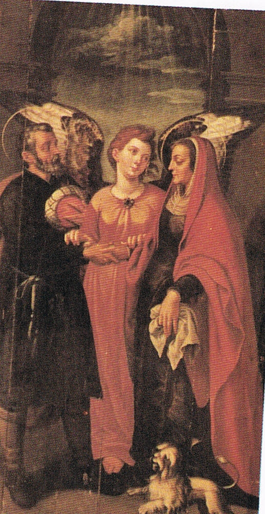 Meeting at the Golden Gate